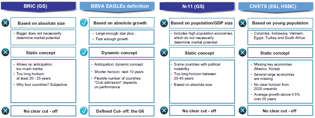 EAGLEs and other economic concept